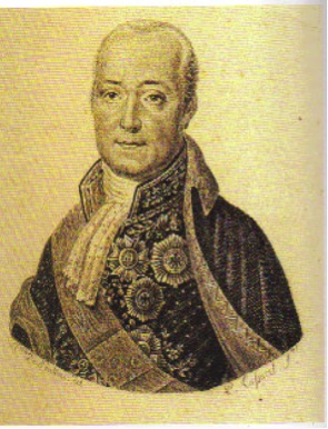 The Prussiano